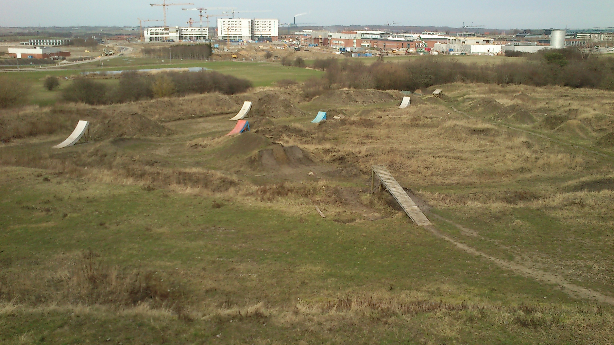 From Aarhus Dirt Jump Park on Vestereng.